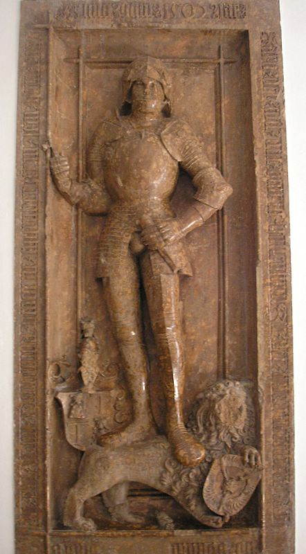 Ehemalige Klosterkirche St. Mang, Füssen. (Allgäu). Epitaph Georg Gossembrot in der Krypta. Eigene Aufnahme, Sept. 2006 / Fuessen, crypt of St. Mang (Bavaria, Germany): Tombstone of Georg Gossembrot. Own photo, Sept. 2006